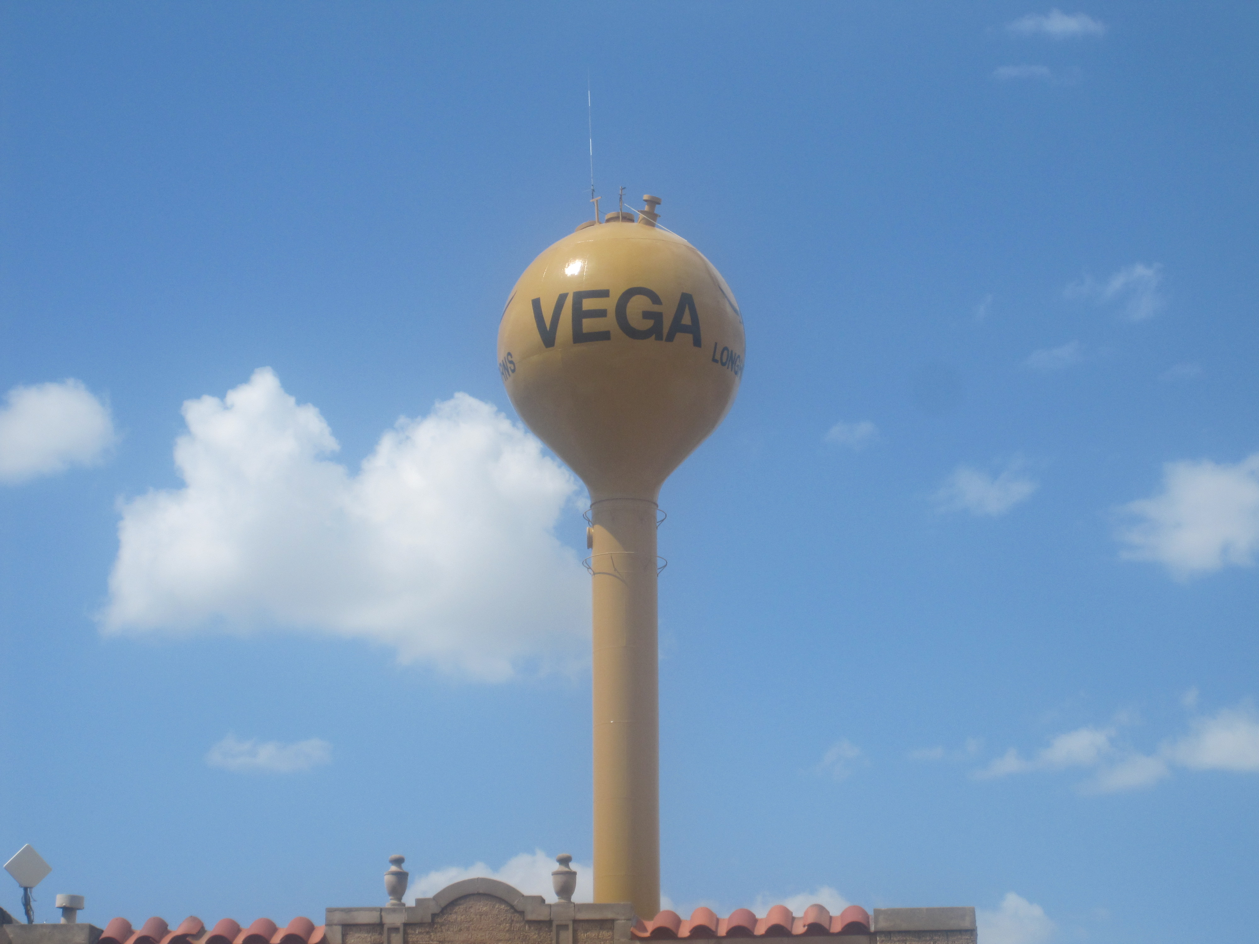 I took photo with Canon camera in Vega, TX.